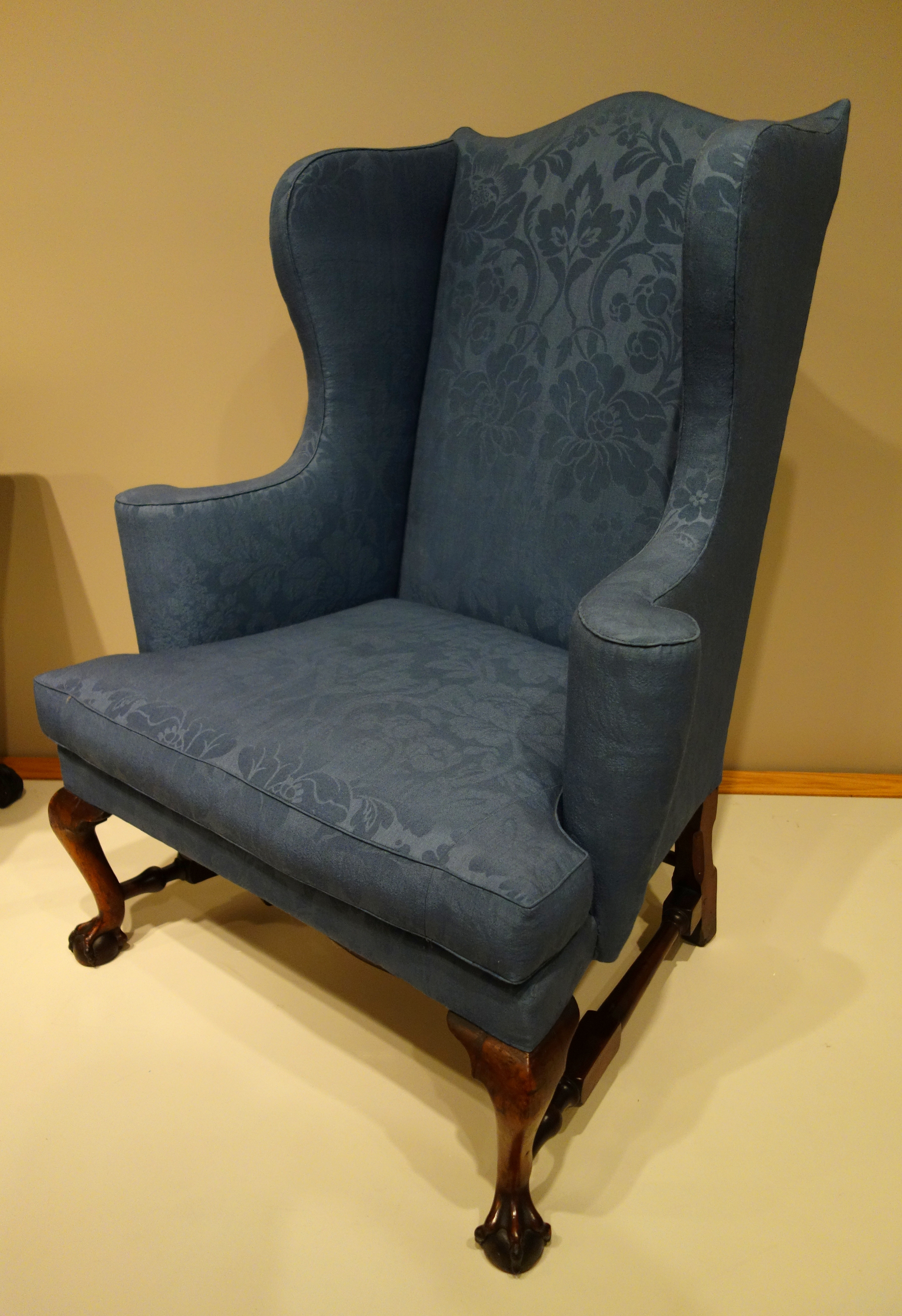 Exhibit in the Winterthur Museum, New Castle County, Delaware, USA. This work is in the public domain because the artist died more than 70 years ago.